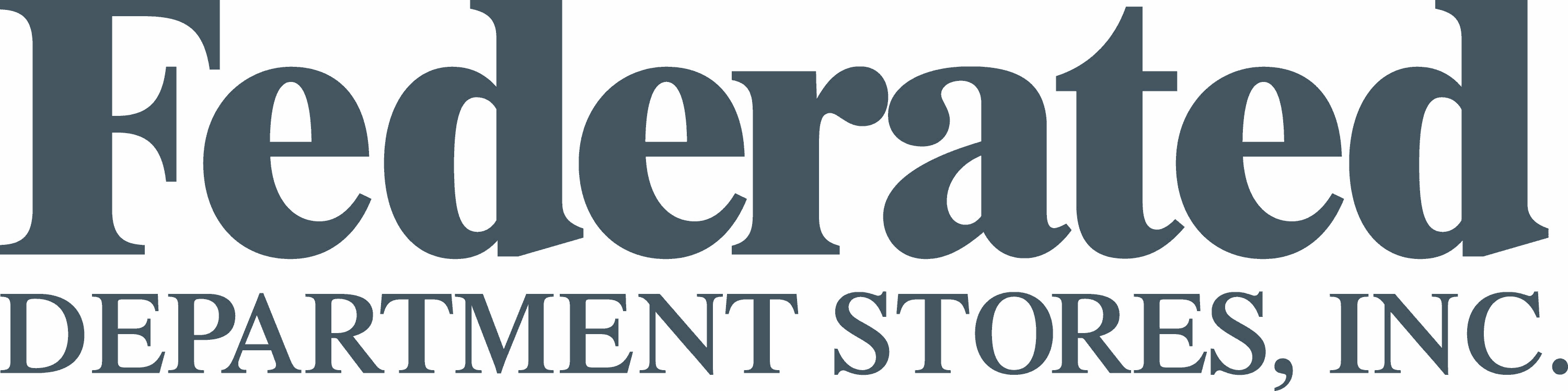 2008-11-25T00:05:31Z OKBot (Talk